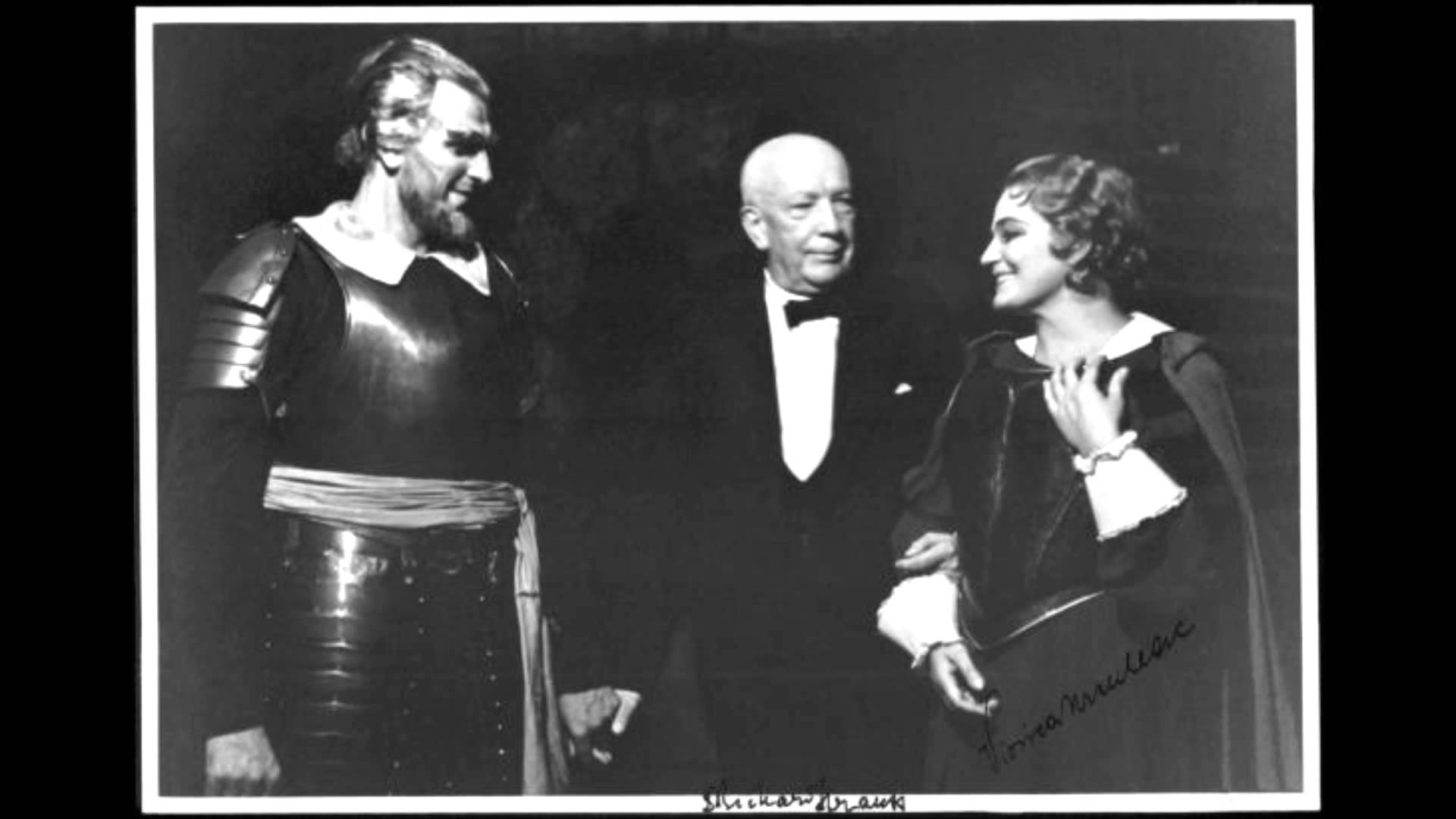 Friedenstag - Hotter, Ursuleac - Strauss (Wien, 1939)